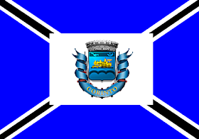 Flags of the city of Corinto, Minas Gerais, Brazil.